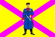 Flag of Srednechelbasskoe rural settlement, Krasnodar Territory, Russia